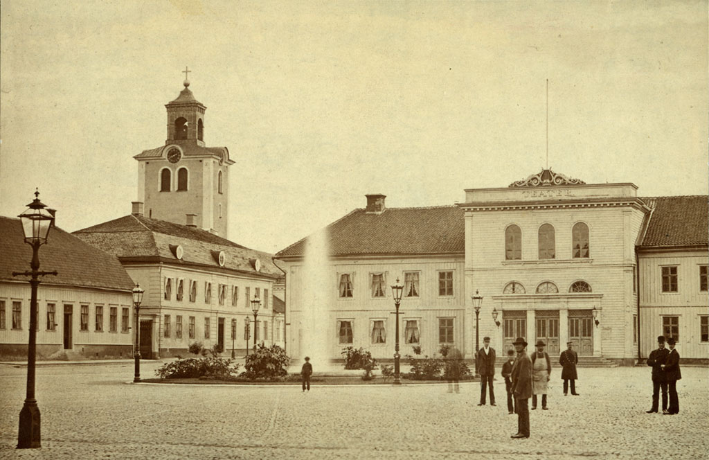 Hovrättstorget (Court of Appeal square) in Jönköping. In the background is the tower of Kristine church. Hovrättstorget i Jönköping. I bakgrunden tornet till Kristine kyrka. Parish (socken): Jönköping Province (landskap): Småland Municipality (kommun): Jönköping County (län): Jönköping Photograph by: Unknown Date: 1870s Format: Albumen print Persistent URL: Read more about the photo database (in english)